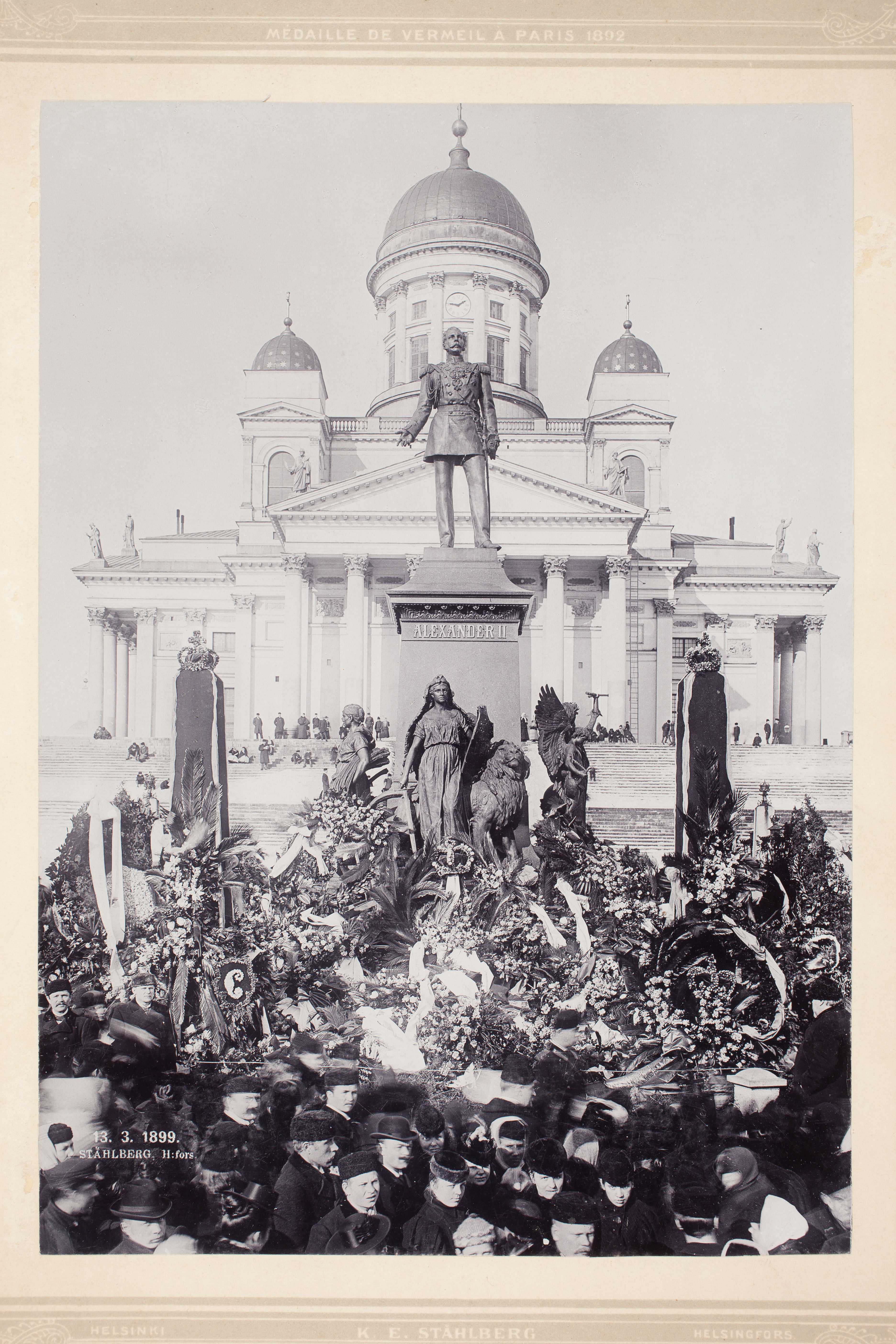 A sea of flowers at the statue of Alexander II in Helsinki, Finland, 13.3.1899. The inhabitants of Helsinki protested against the attempts by Nikolai II to russify Finland by laying flowers at the statue of "the good czar" Alexander II.